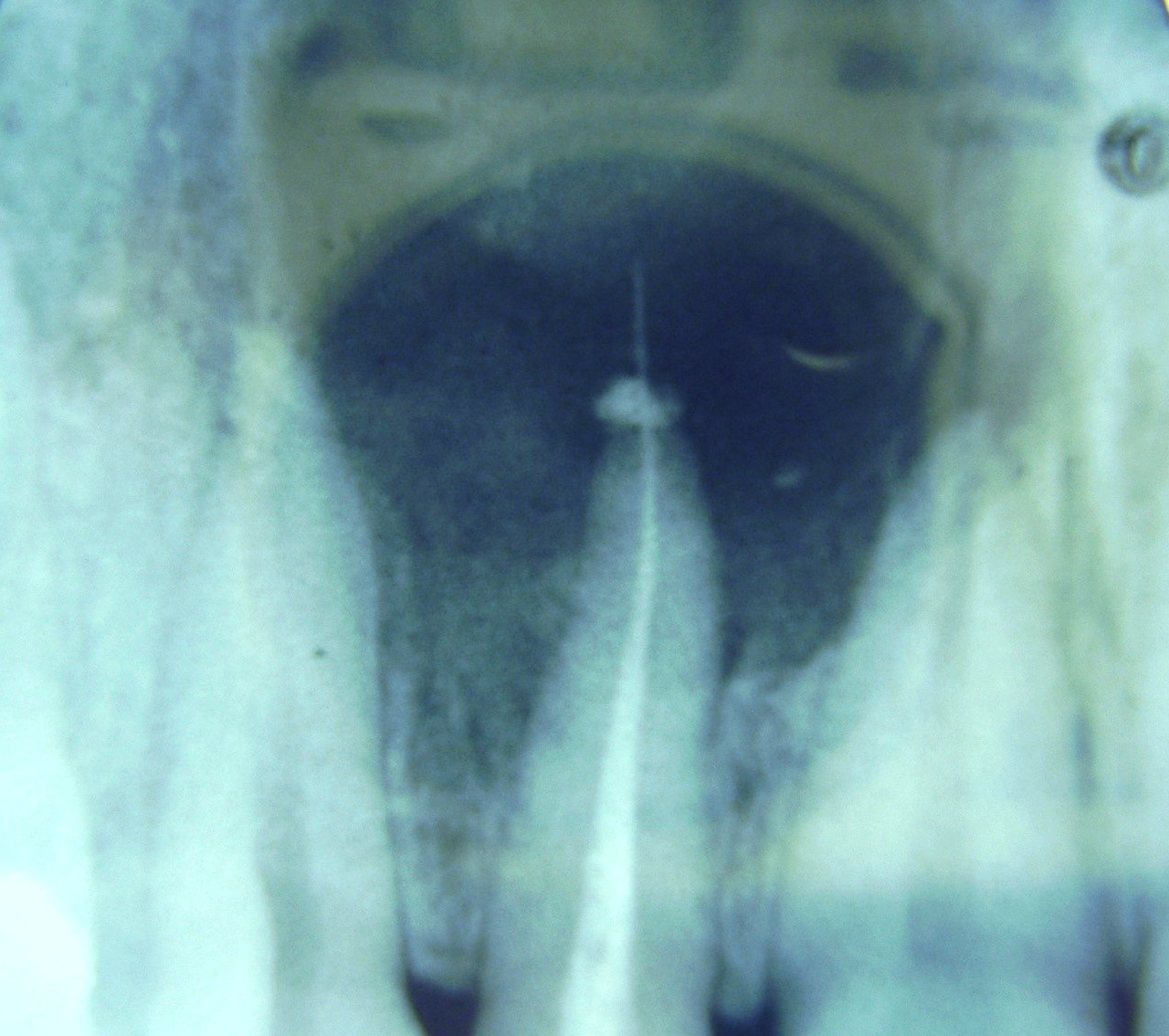 Dental X-ray Dental X-ray